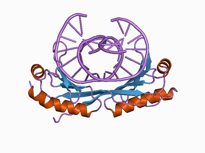 Cartoon representation of the molecular structure of protein registered with 1cdw code.